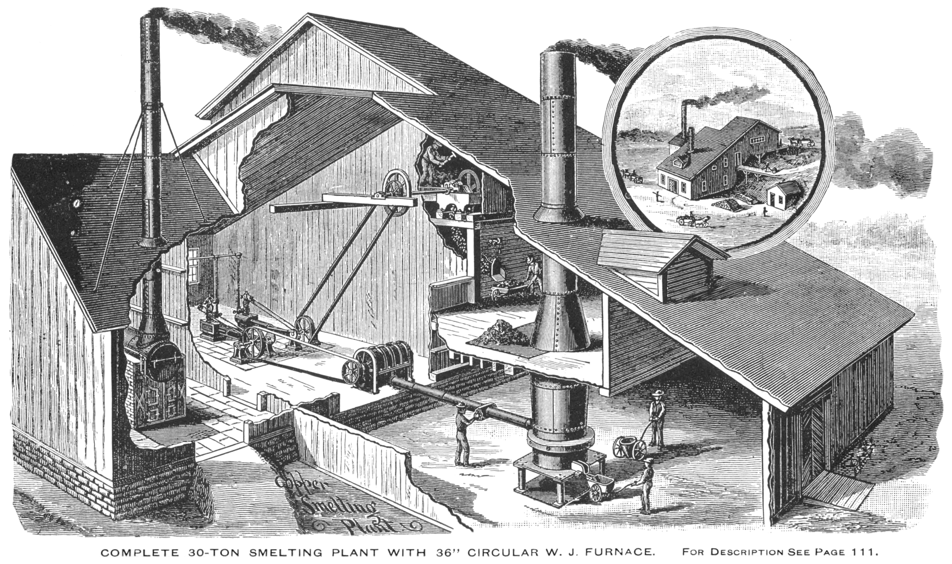 Smelting plant of 30 tons capacity in 24 hours, producting lead or copper matte. Text appearing in the book SMELTING PLANT WITH ROUND FURNACE. On page 110, plate No. 83, we represent a complete smelting plant of 30 tons capacity in 24 hours. The general arrangement is such that the ore can be handled to the best advantage with the least expense. Above the charging floor is a storage bin for ores and fluxes on top of which a 7x10 Blake Crusher is situated. This crusher is used for breaking up rock and limestone too large for the furnace, and is of ample size. The balance of the machinery is fully shown on the engraving. A suitable blower furnishes blast to the 36" circular water jacket furnace described below. The engine and boiler used for driving blower and crusher is located in a separate room and is of sufficient capacity for handling the machinery properly. We shall be pleased to correspond with parties contemplating the erection of plants of this kind for copper as well as galena ores, any capacity desired.